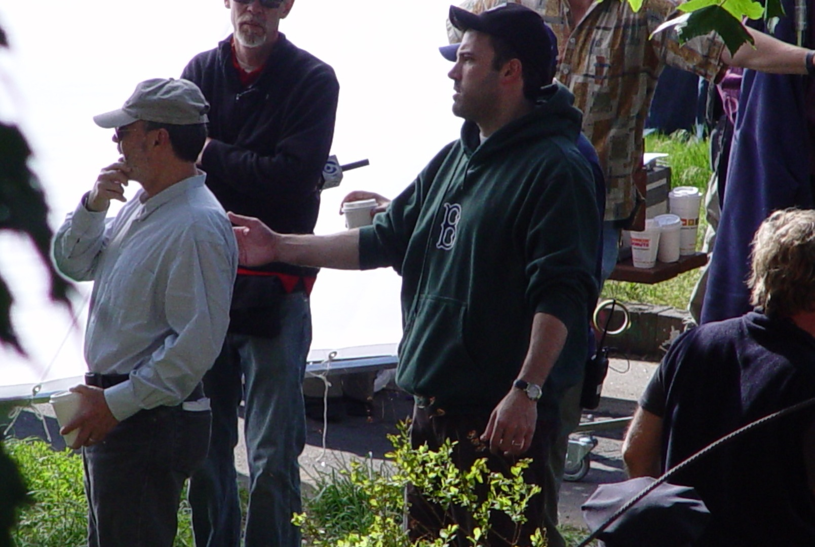 Ben Affleck directing Gone Baby Gone in Meaney Park, Dorchester.